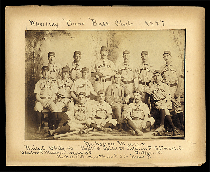 A team photo of a minor league baseball team, the 1887 Wheeling Green Stockings of the Ohio State League. The picture shows Hall of Famer Sol White (second from left) and future major-league outfielder Jake Stenzel.Back row, L-R: William Bailey, Sol White, Frank Bell, Bernard Speidel, William Sullivan, Jake StenzelMiddle row, L-R: Sam Kimber, George Mallory, Jack Croghan, Parson Nicholson, Bob WestlakeFront row, L-R: Sam Nicholl, Bob Smurthwaite, John Dunn